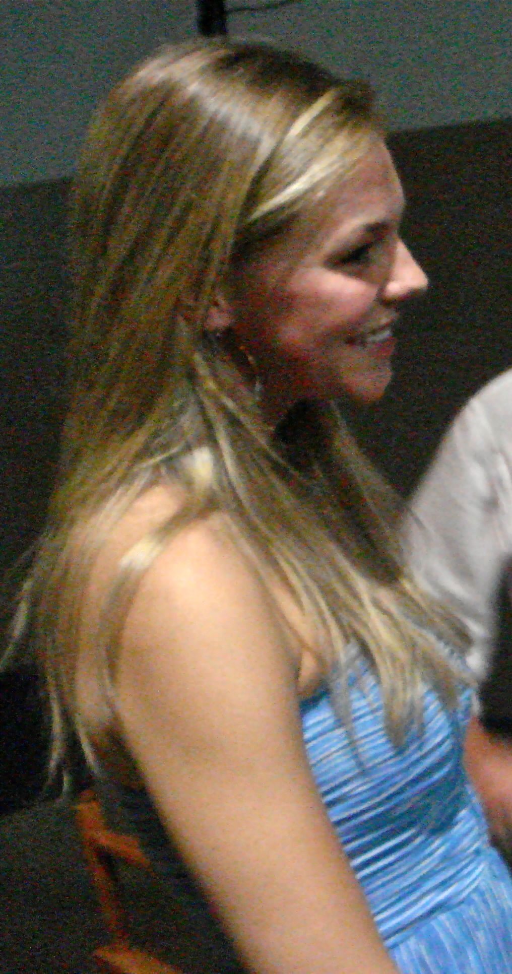 Eloise Mumford talks to fans during a sneak showing of the pilot for the short-lived TV series "Lone Star" in the lobby of the Studios at Las Colinas where the series shot in Texas.